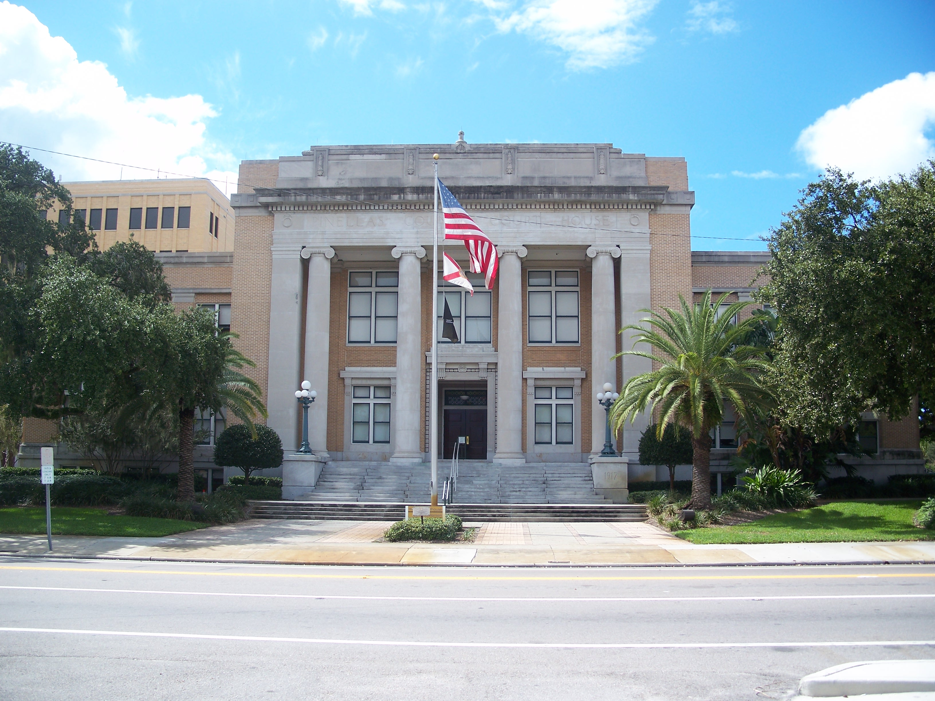 Old Pinellas County Courthouse, in Clearwater, Florida